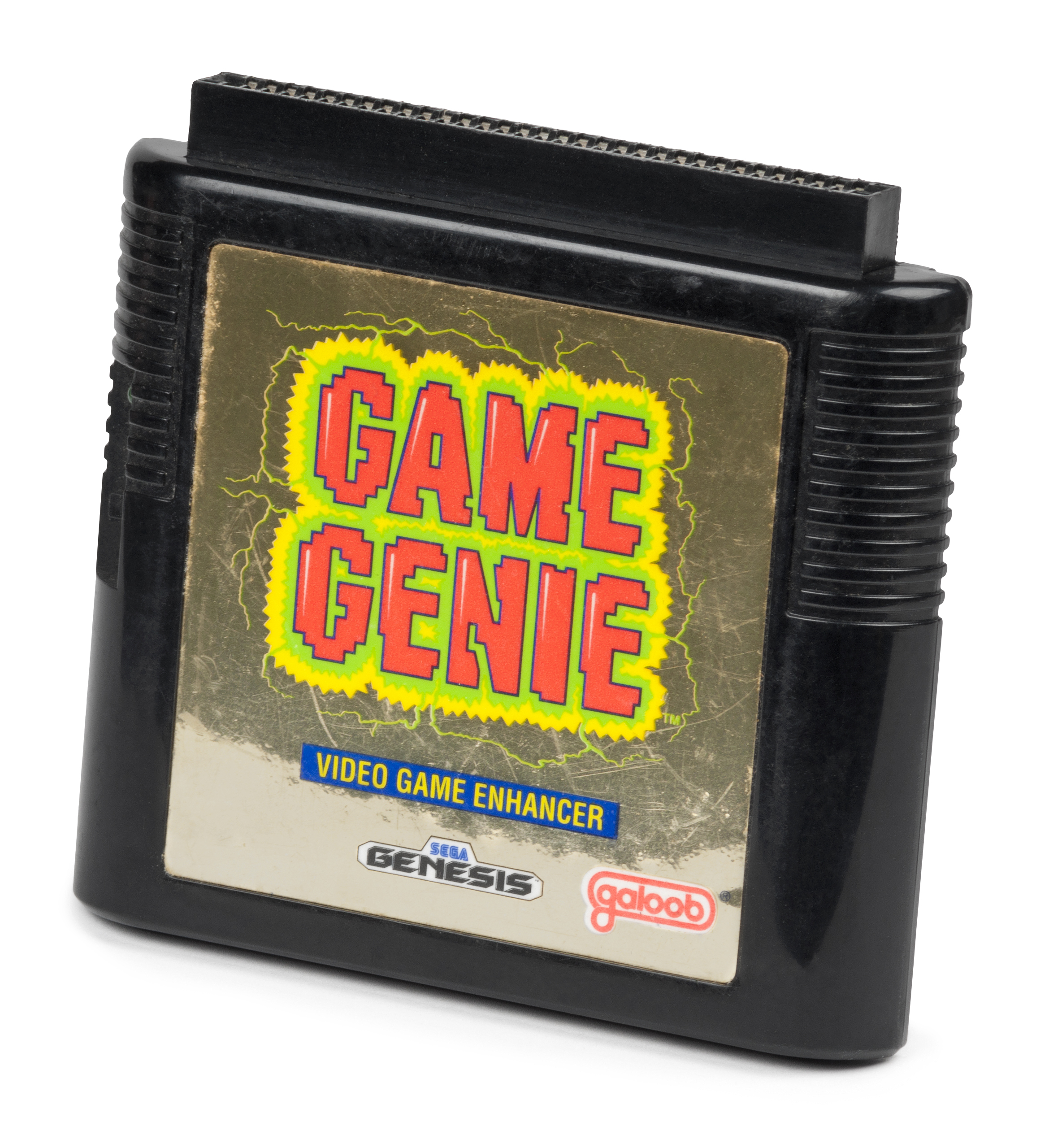 A Game Genie for the Sega Genesis, a video game cheating device.